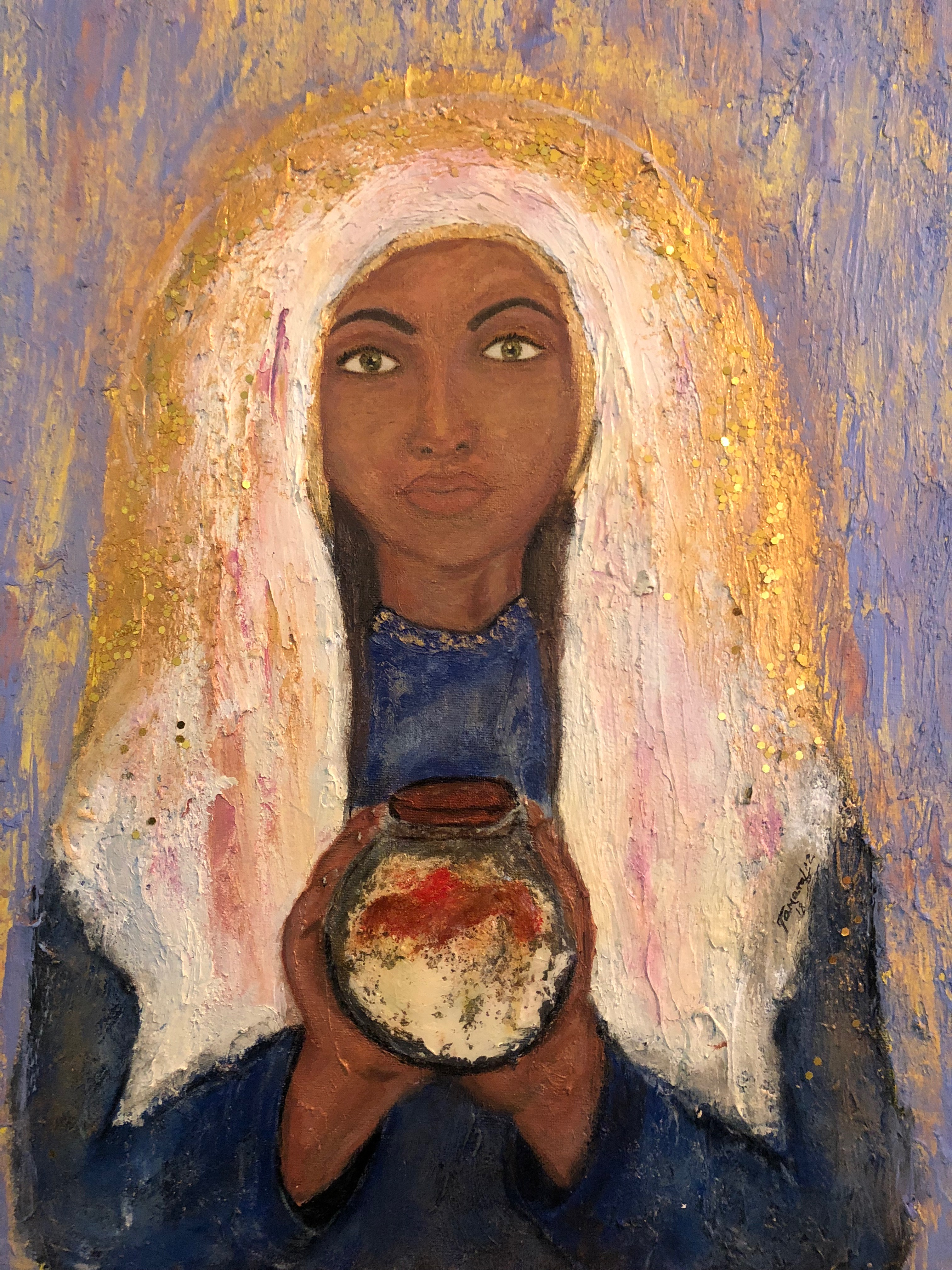 Portrait of Elenita de Jesus with her Blood jar that supported DNA evidence of her existence, tittled "Ashera Our Shekinah" 2018.